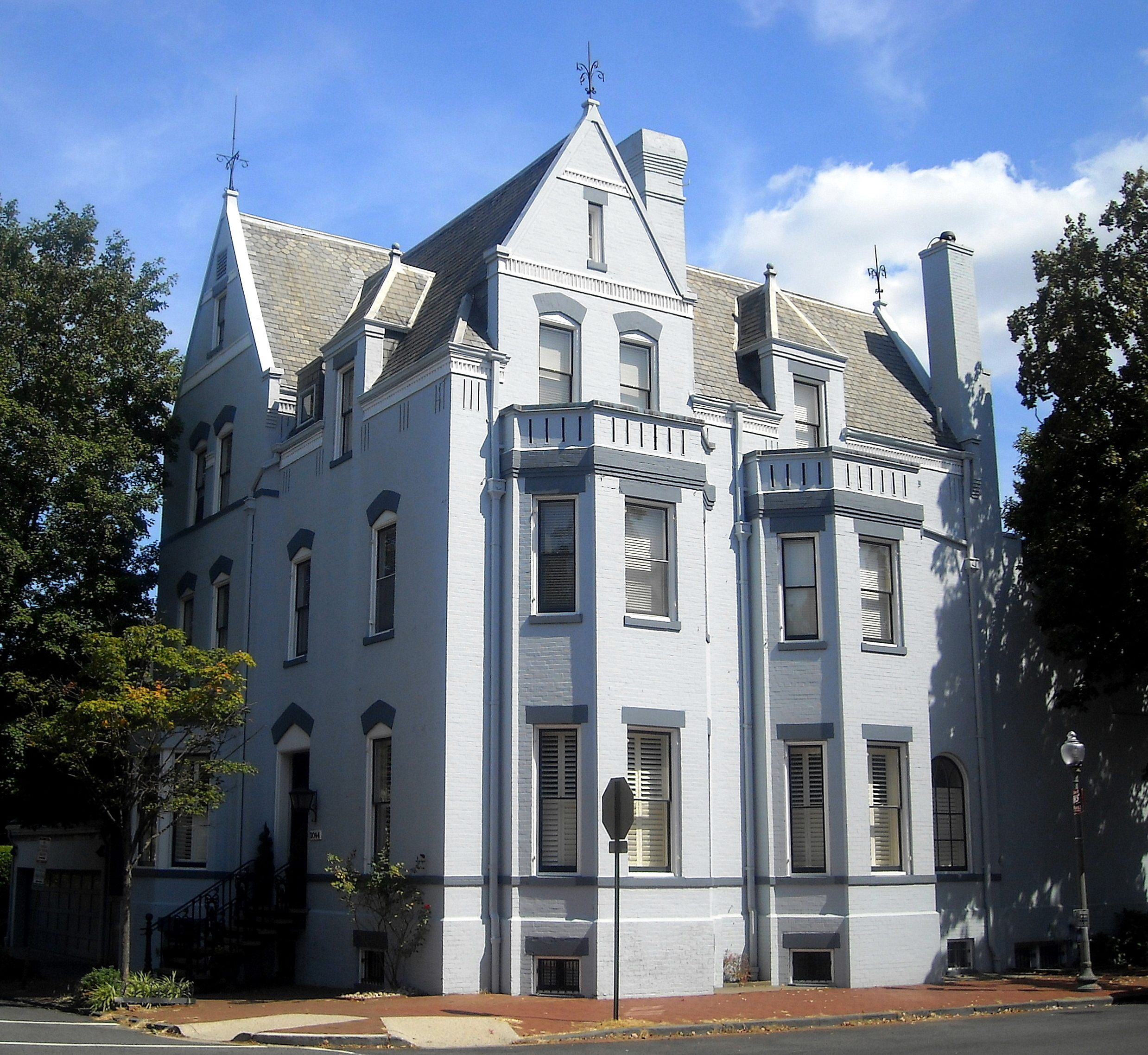 3044 O Street, N.W., located in the Georgetown neighborhood of Washington, D.C., United States. Built in 1870, the brick, three-and-a-half-story, Queen Anne-style mansion features nine bedrooms, seven bathrooms, and twelve fireplaces. The building is designated as a contributing property to the Georgetown Historic District, a National Historic Landmark listed on the National Register of Historic Places in 1967. Previous occupants of 3044 O Street, N.W., include: Armistead Peter, a physician, descendant of Georgetown's first mayor Robert Peter, and previous owner of Tudor Place; Armistead Peter's wife, Martha Custis Kennon, a great-great-granddaughter of former First Lady Martha Washington; Louis Mackall, a prominent Georgetown attorney; Hugh Auchincloss and his wife, Janet Lee Bouvier, an American socialite and the mother of former First Lady Jacqueline Bouvier Kennedy Onassis; Laughlin Phillips, a philanthropist, former CIA officer, founder of the Washingtonian magazine, former museum director and board chairman of The Phillips Collection (founded by his father, Duncan Phillips); David C. Roth, managing director of EMP Global LLC, former vice president and treasurer of the World Bank, and board member of the Roth Family Foundation. Former First Lady, Senator (NY) and U.S. Secretary of State Hillary Clinton considered purchasing the home following her election to the U.S. Senate in 2000.